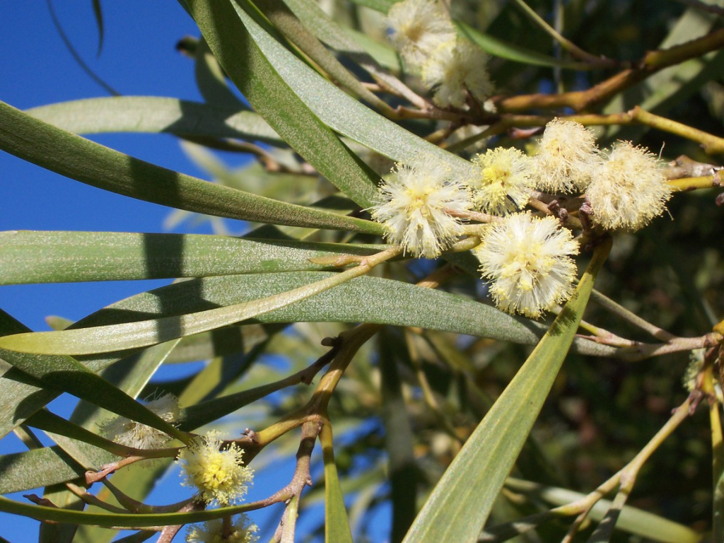 Réunion mountain tamarin (Acacia heterophylla) - Flowers (detail)(Réunion island)